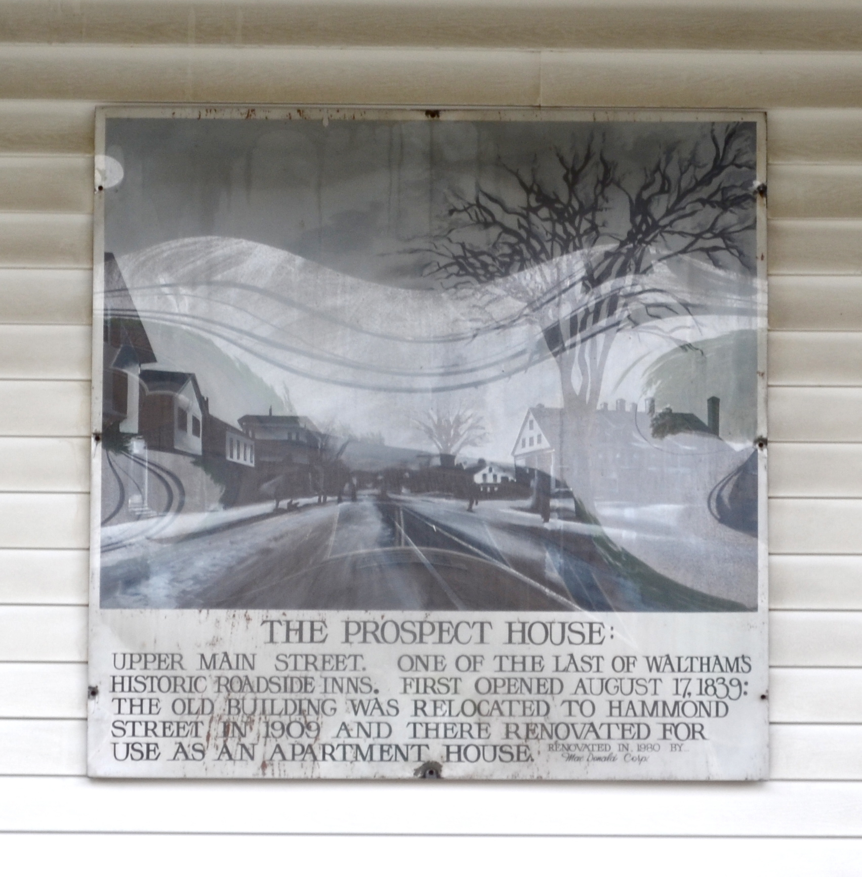 Detail from the front of Prospect House at 11 Hammond Street, Waltham, Massachusetts: "THE PROSPECT HOUSE Upper Main Street. One of the last of Waltham's historic roadside inns. First opened August 17, 1839: the old building was relocated to Hammond Street in 1909 and there renovated for use as an apartment house."